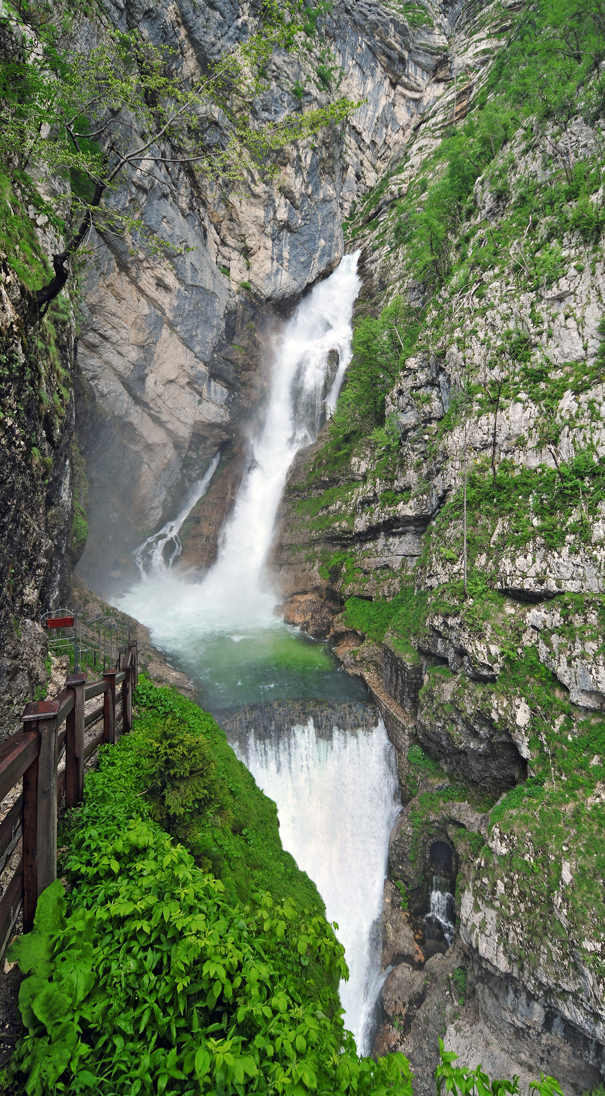 The Savica Waterfall in the Triglav National Park is the source of the Sava Bohinjka in Slovenia. It rises as a kast source from a fault cutting into the Komarča cliff. The fall draws its waters from the Triglav Lakes Valley. From a horizontal Triassic limestone cave with underground lakelets and siphons it slides down 38 m at an angle of 50 degrees and then falls almost vertically by 51 m into a mighty rock trough. The Komarča cliff is home to a warmth-loving plant community of Hophornbeam, Star Broom, Swallowwort, Manna Ash and the endemic Bohinj Iris. Komarca and the surroundings of Black Lake (črno jezero) abound in reptiles including a peculiar Horvat’s Rock Lizzard. Below the pool there is a dam for the Ukanc power plant, which was built during the construction of the Bohinj railway tunnel.